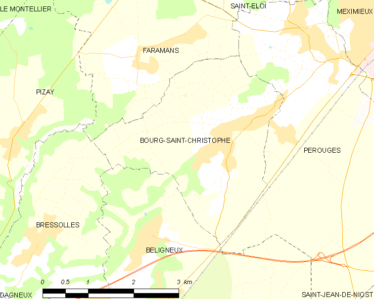 Map of French commune: Bourg-Saint-Christophe Map commune FR insee code 01054.png